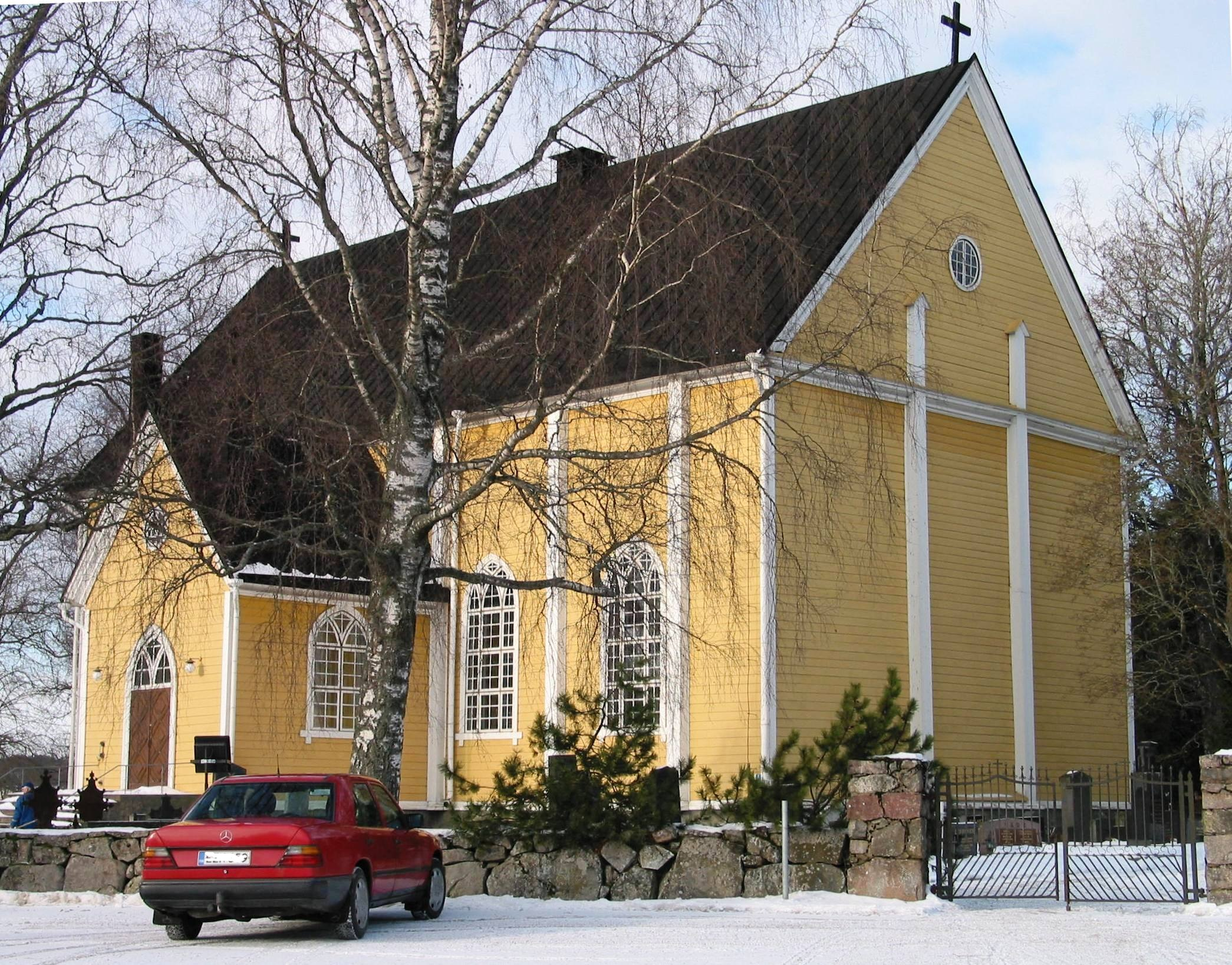 Pusula Church in Nummi-Pusula, Finland